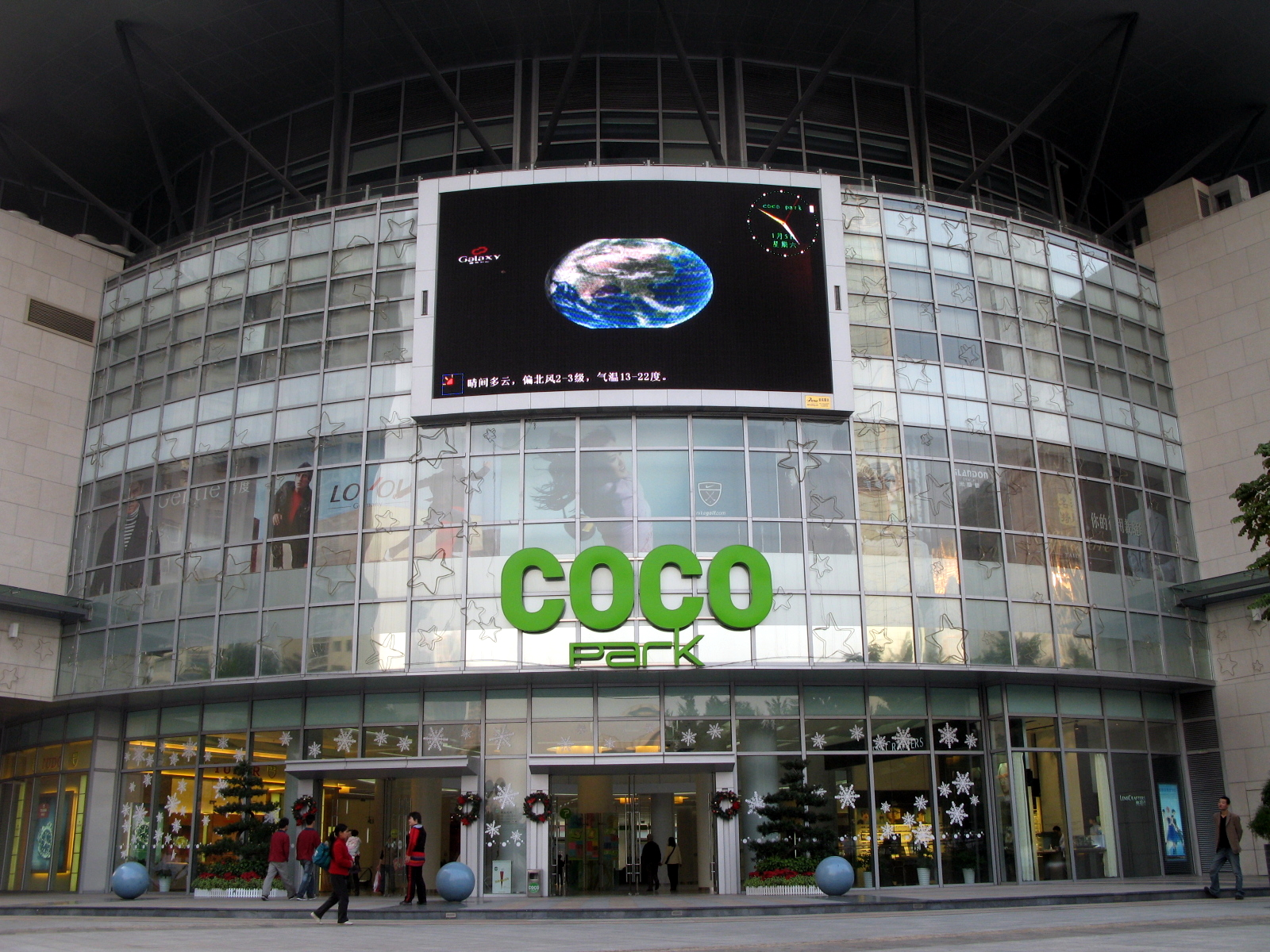 COCO Park Shopping Mall Entrance